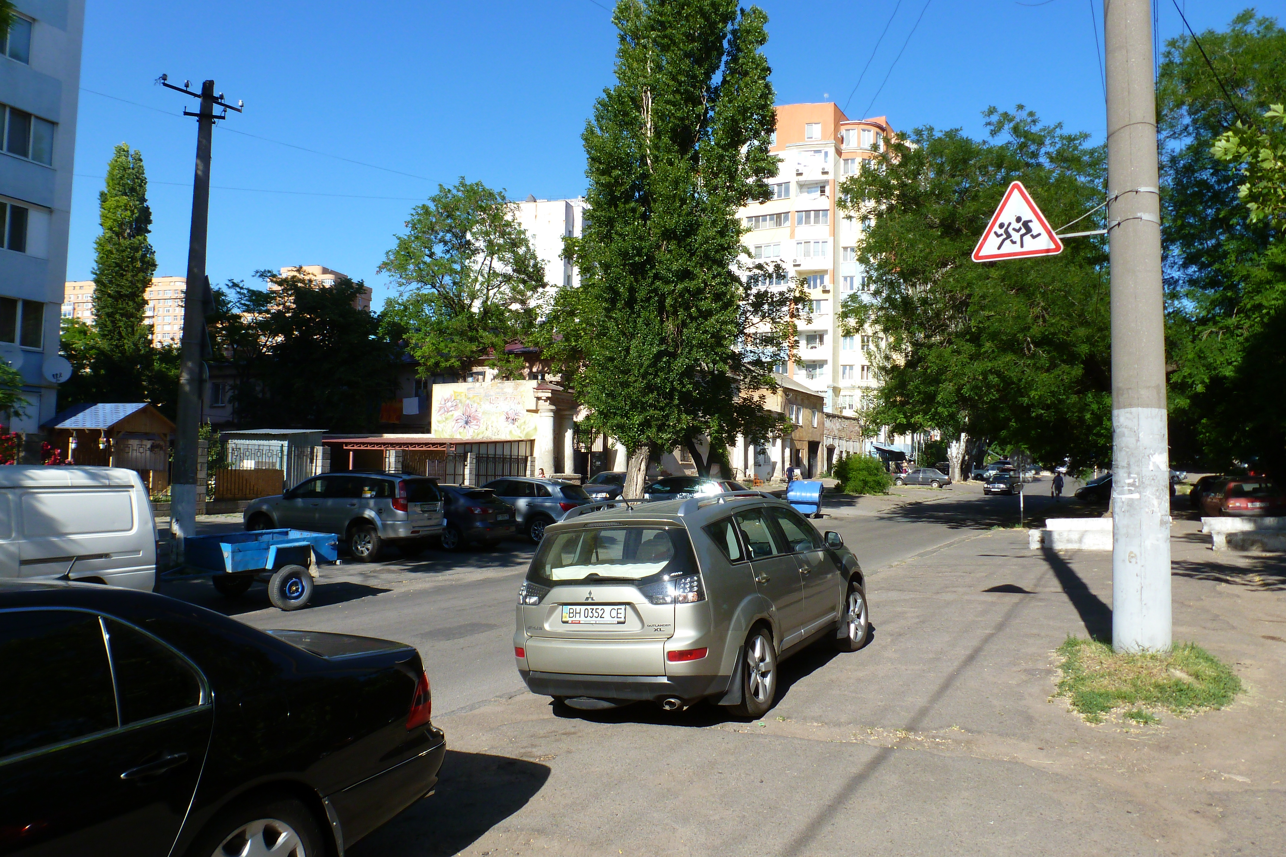 View on Kartamyshevskaya street from Golokovskaya street on 7 Jume, 2017. Odessa, Ukraine.